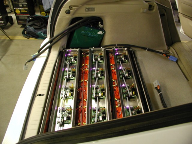 Photo of the 15 additional Lead-acid batteries, Manzanita Micro PFC charger, and regulators installed into the PHEV Prius named WhiteBird which was converted for the Chelan County’s Advanced Vehicle Initiative and finished in early October 2006.